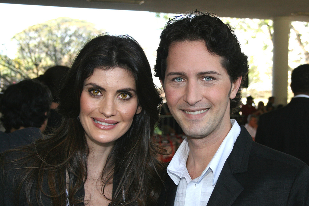 Brazilian television presenters, Isabella Fiorentino and Arlindo Grund of the SBT.